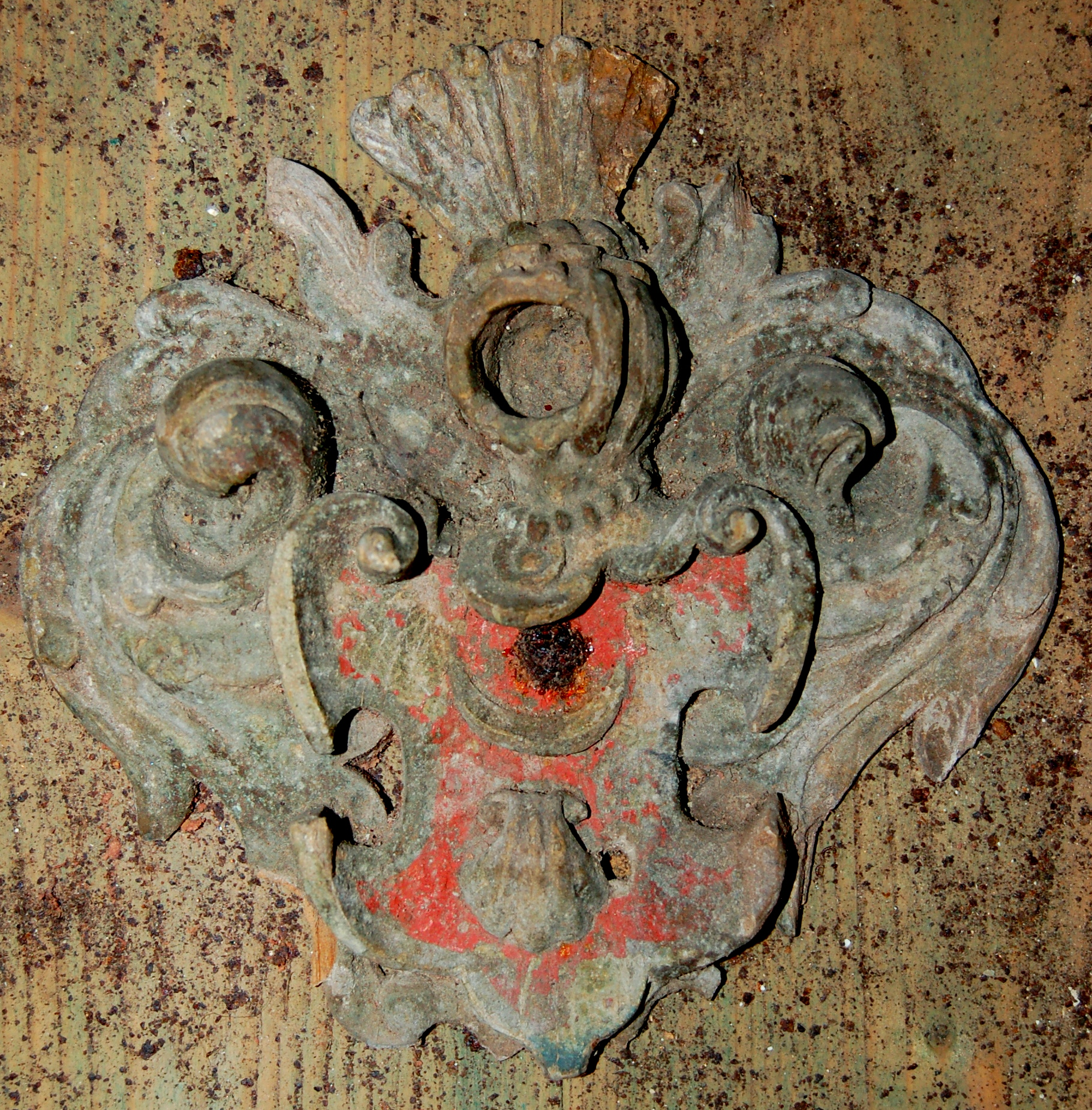 Heraldry Baden, Hedrum church (cellar), Norway